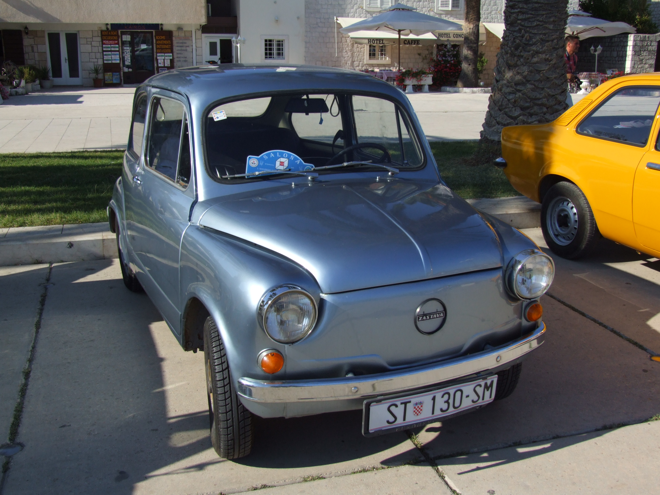 Zastava 850 in Trogir